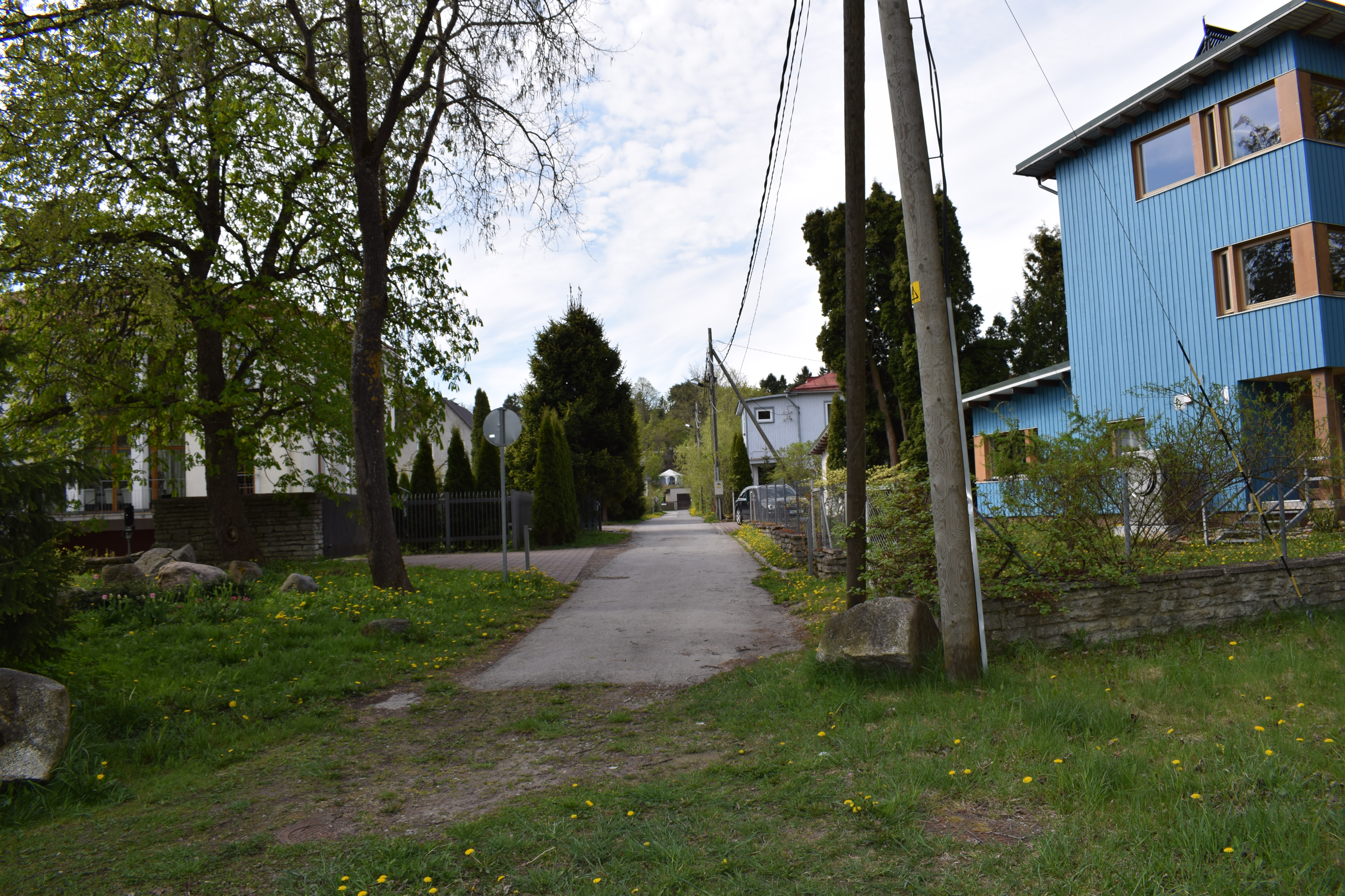 Kärestiku tänav